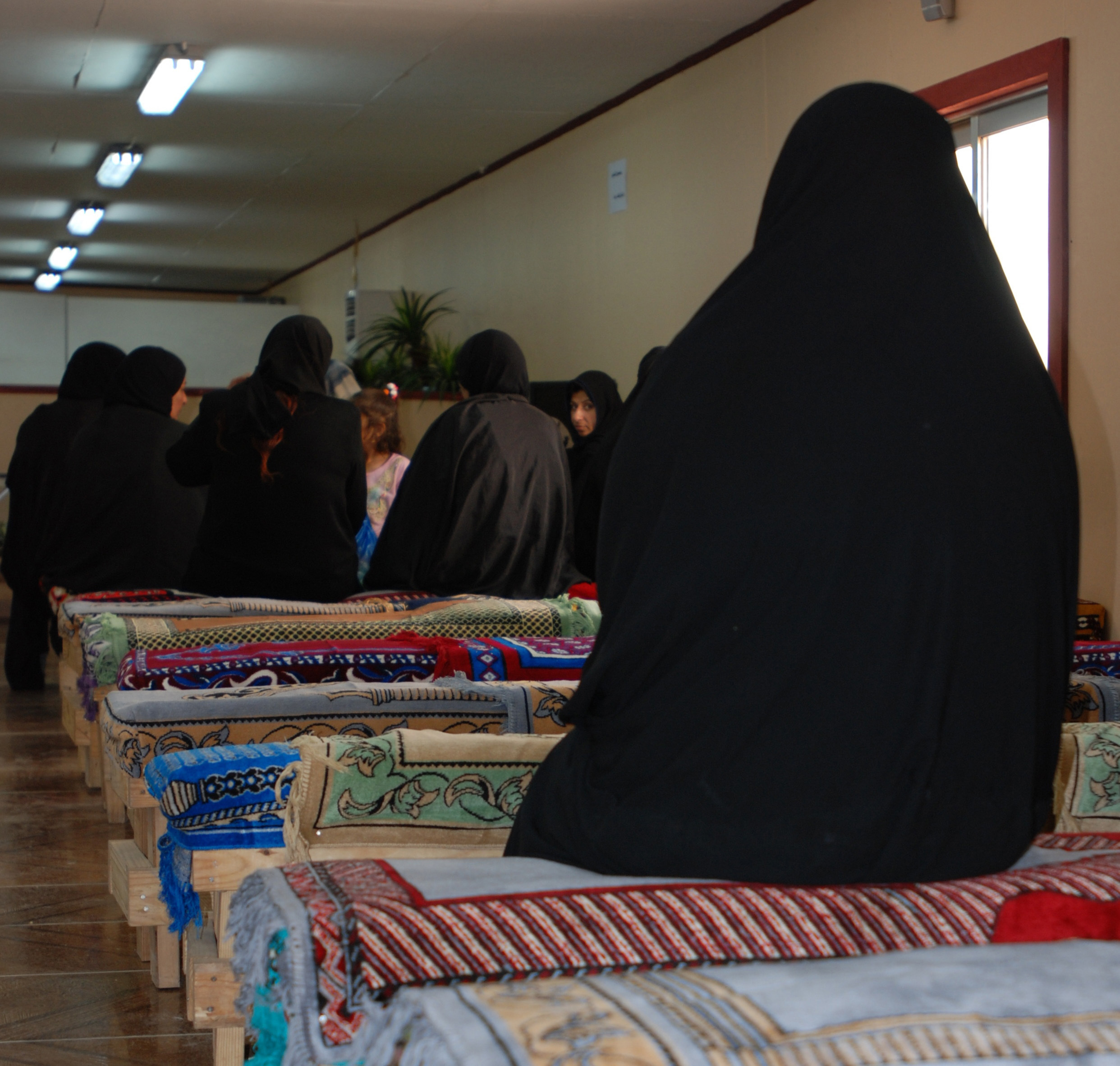 Families wait at the Welcome Center to schedule a visitation to see their relatives who are being held at the theater internment facility at Camp Bucca, Iraq.